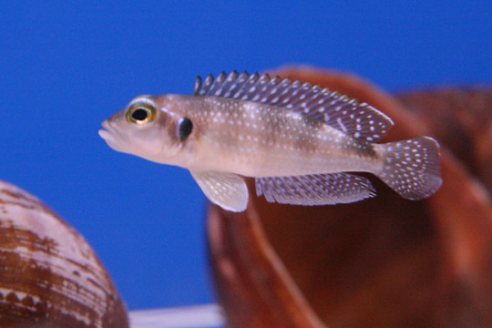 A small shelldwelling cichlid Lamprologus meleagris at the 20th Pramong Nomklao fish show event at the Future Park Rangsit, Thailand, in July 2008. Picture taken by myself.